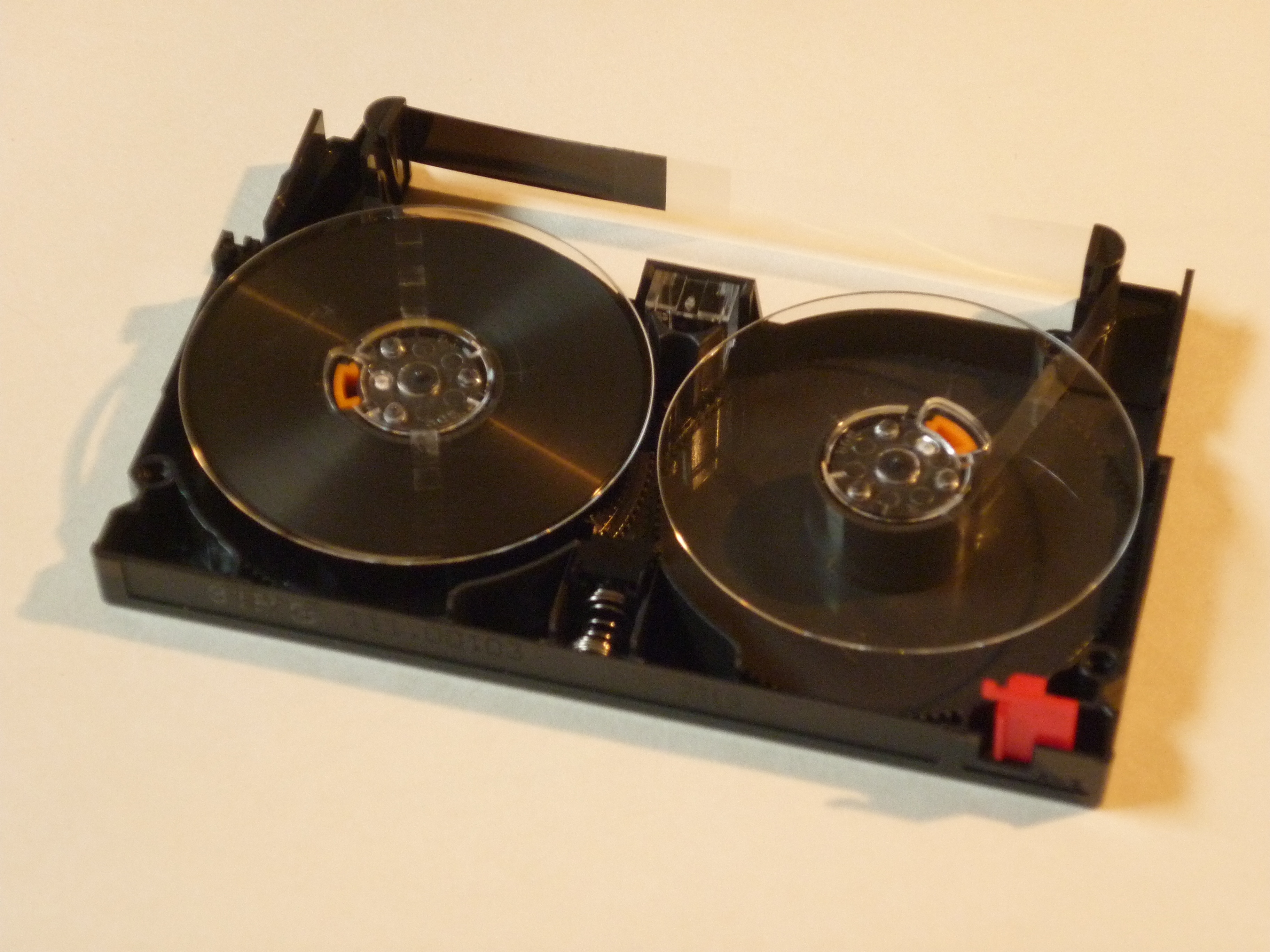 VXA V17 tape cartridge with cover removed, rear view